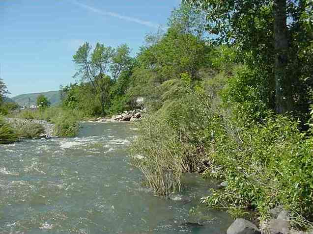 Potlatch River, a tributary of the Clearwater River in ID